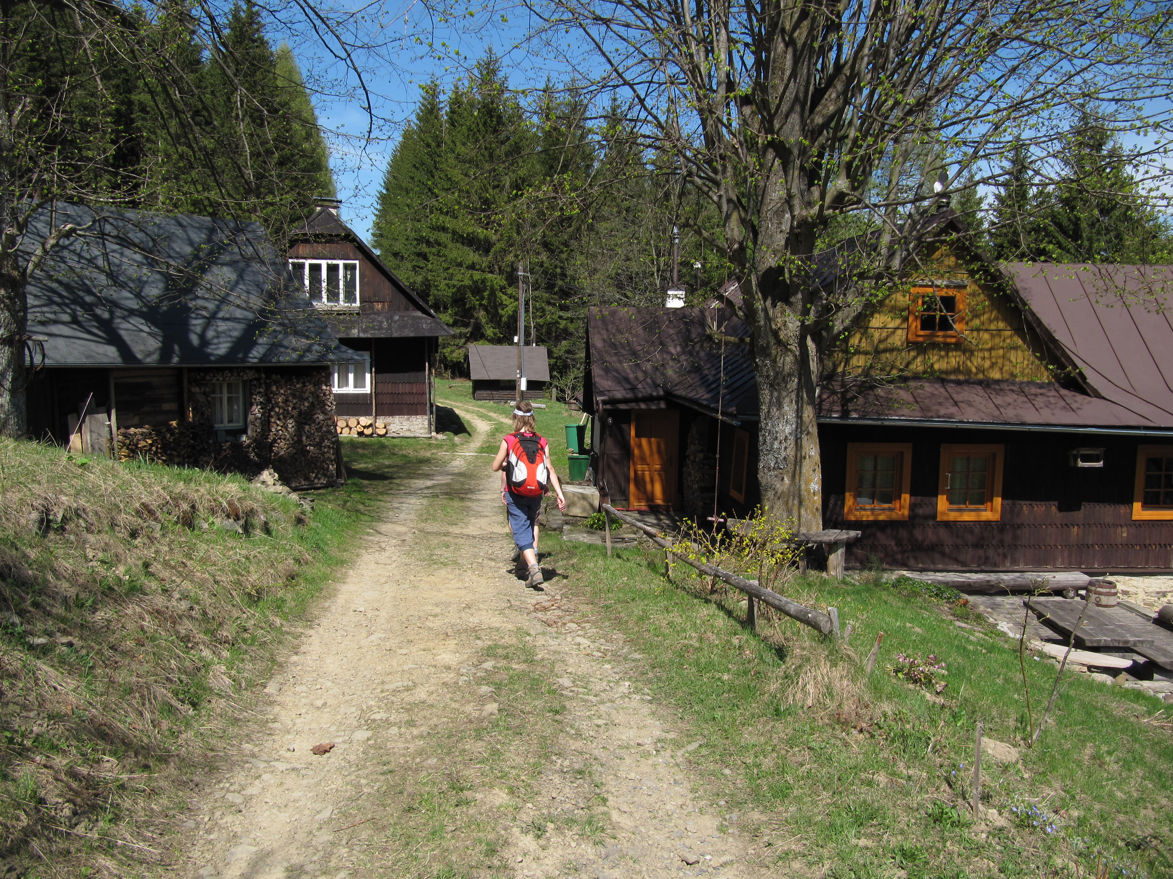 Velké Karlovice, Vsetín District, Czech Republic, part Malé Karlovice.